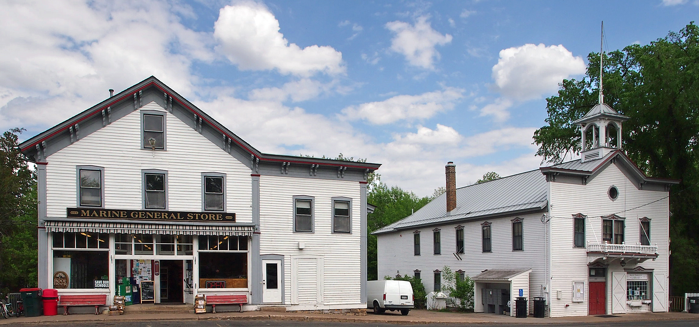 Marine General Store and Marine Village Hall, Marine on St Croix, Minnesota, USA. Viewed from the southwest.